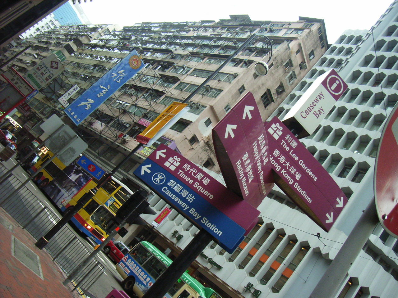 泉章居 位於 香港島銅鑼灣波斯富街, 近利舞台廣場, Percival Street, Causeway Bay, Hong Kong.